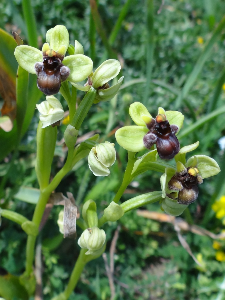 Ophrys bombyliflora